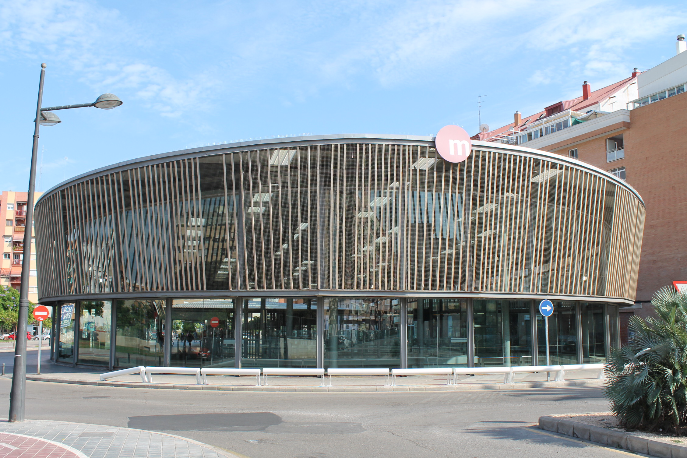 Outside of the Marítim-Serrería station of Metrovalencia.